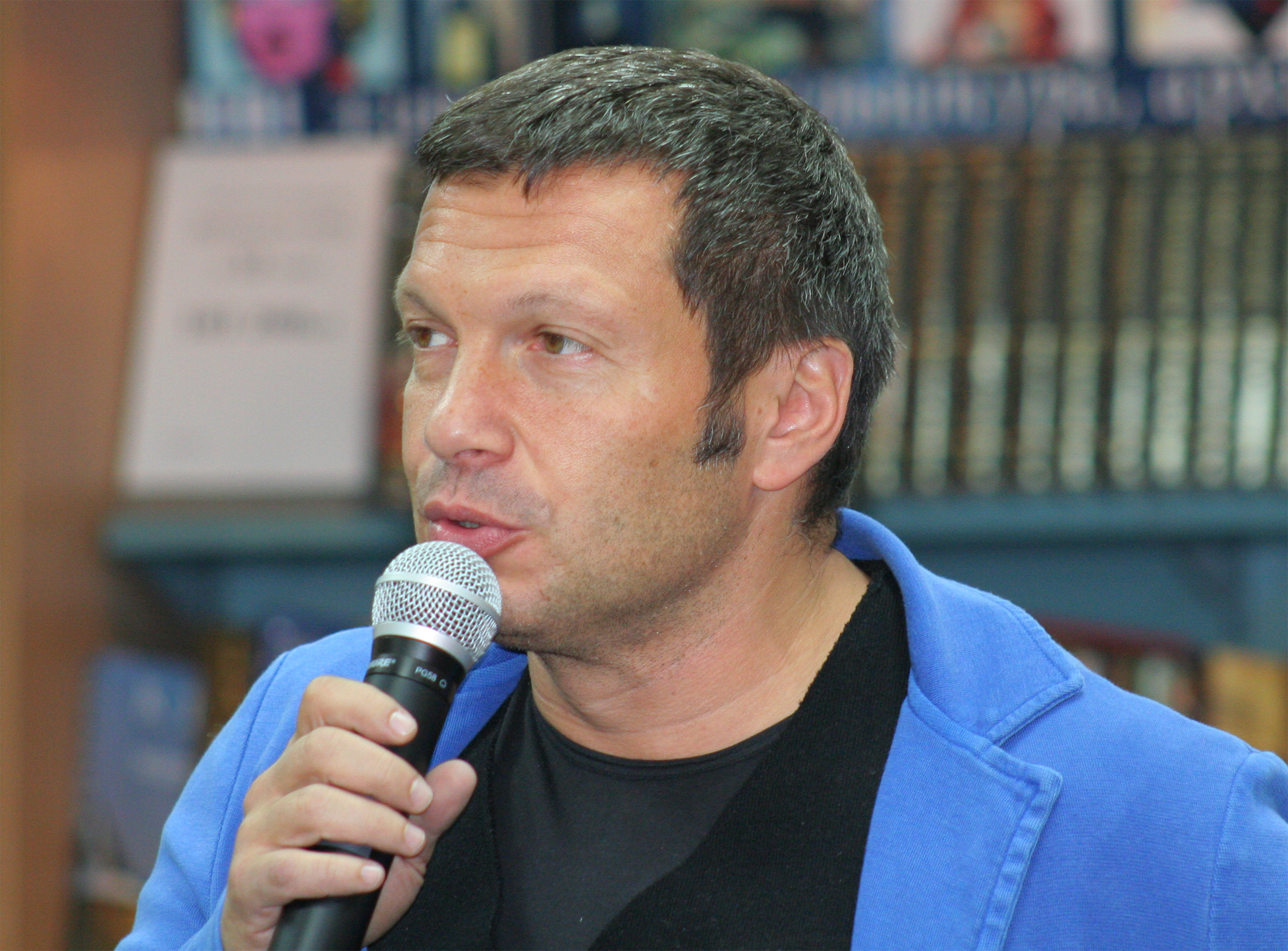 Russian TV host Vladimir Solovyov at an authograph session